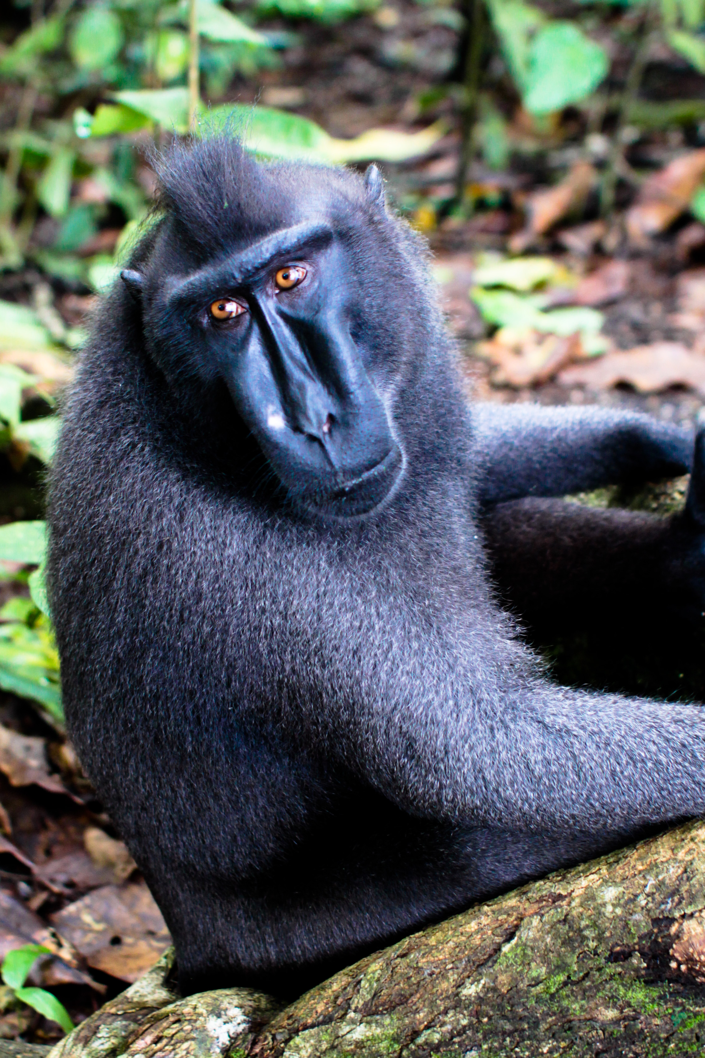 Sulawesi crested macaque (Macaca nigra) at North Sulawesi